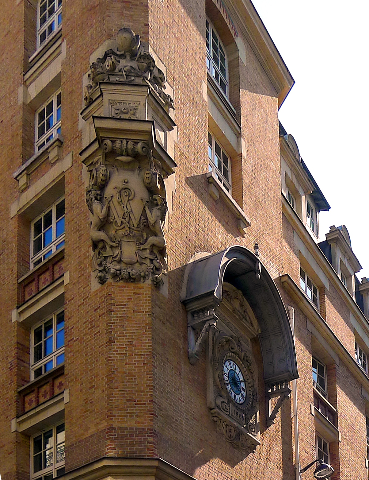 Mathurins et Arcades streets - Paris